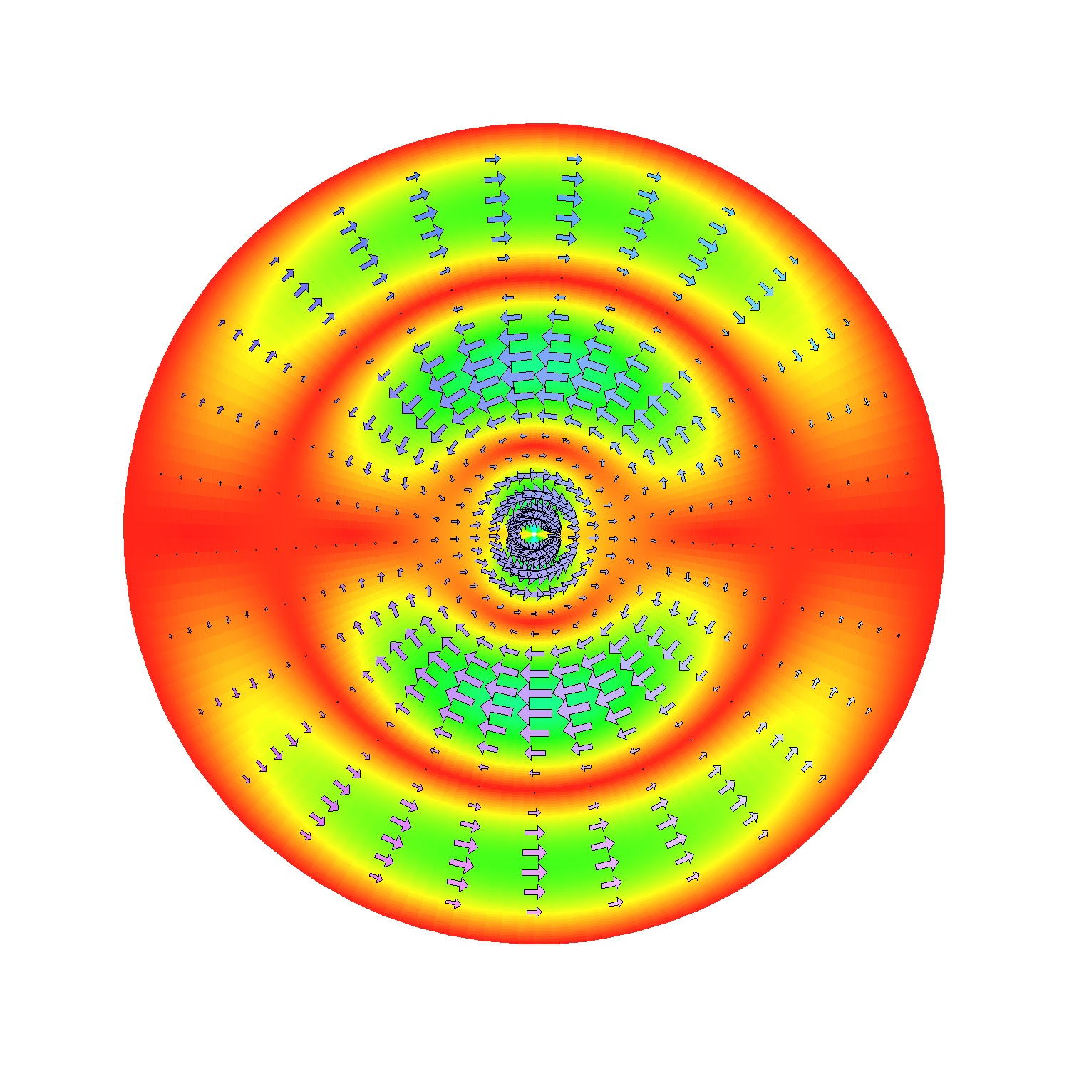 Plot of E and H fields on the TEnl mode defined by n and l.